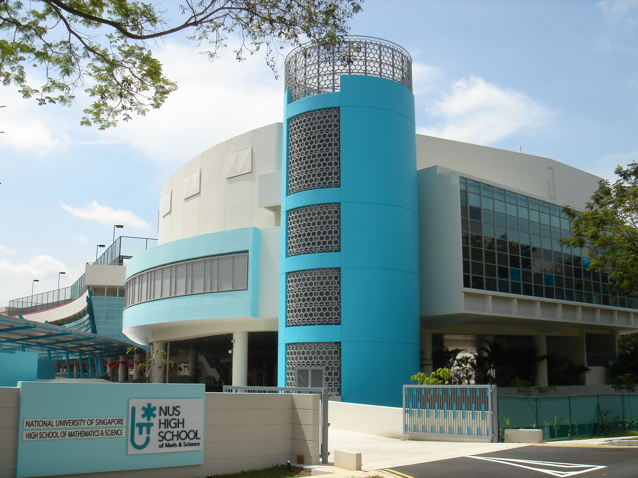 NUS High School of Mathematics and Science, Clementi Campus, Singapore.